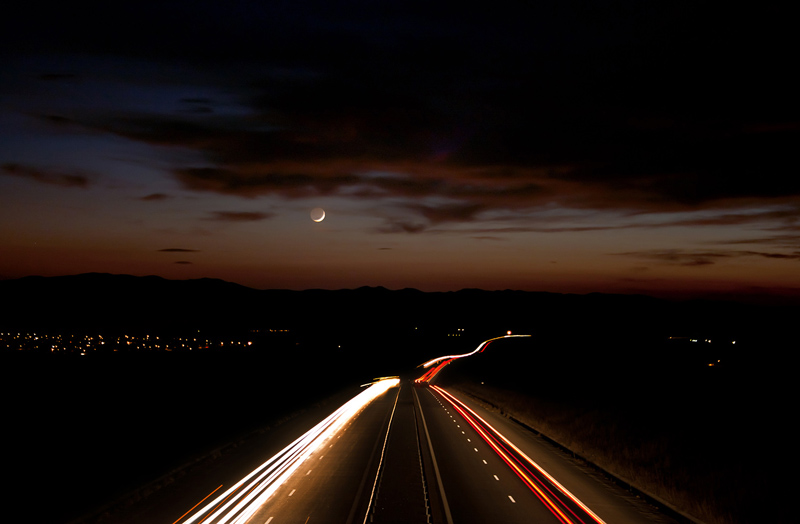 Trakia highway at night